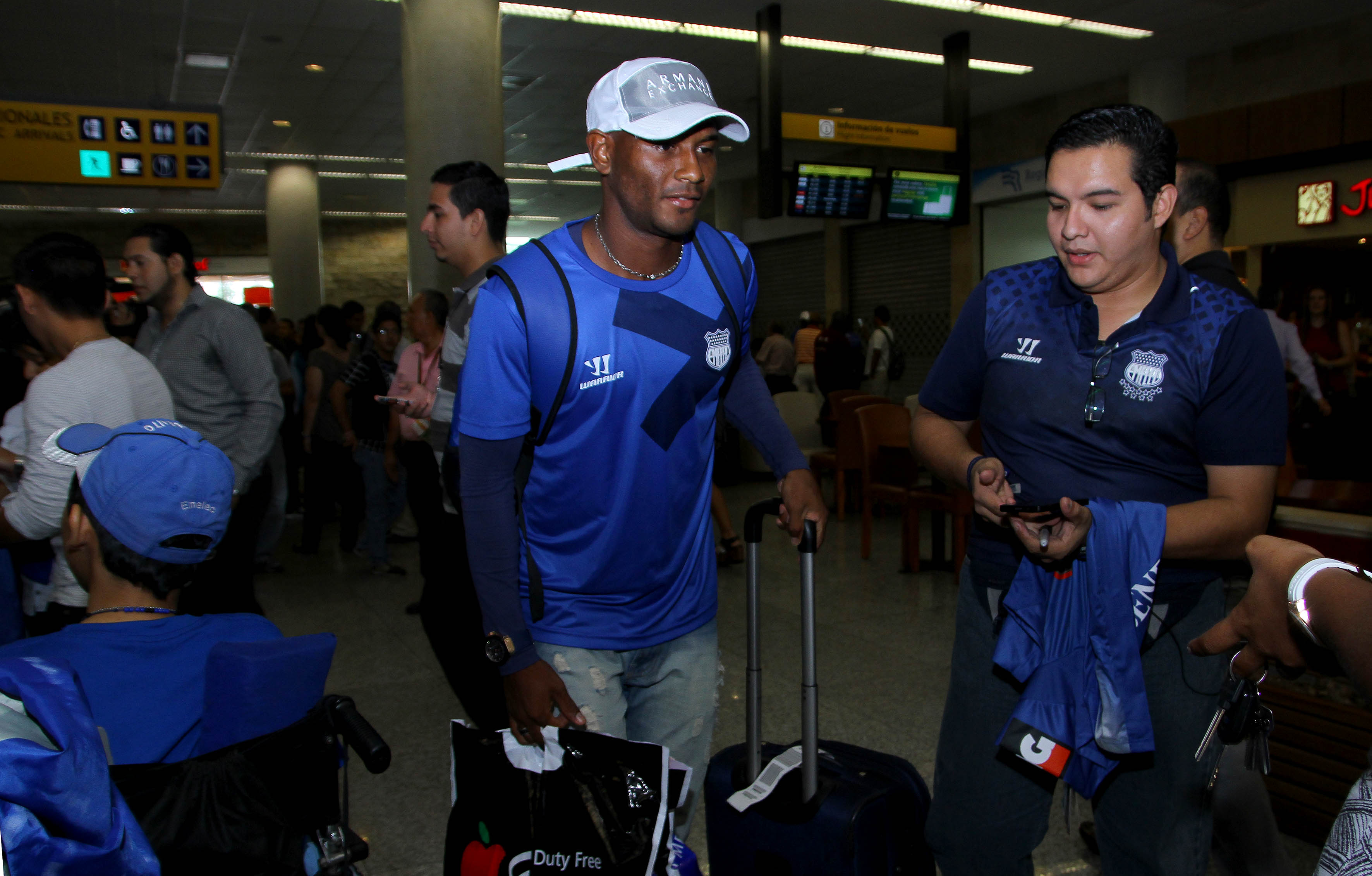 Guayaquil, viernes 23 de enero del 2015 (ANDES).-El equipo de Emelec llegó a Guayaquil luego de realizar la pretemporada en Argentina, en la gráfica el jugador Oscar Bagui Foto:César Muñoz/ANDES